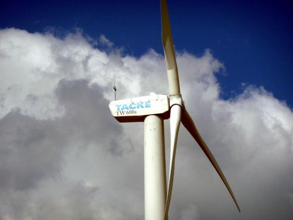 Tacke TW 600a wind turbine in the Wielen wind farm, Schleswig-Holstein, Germany.